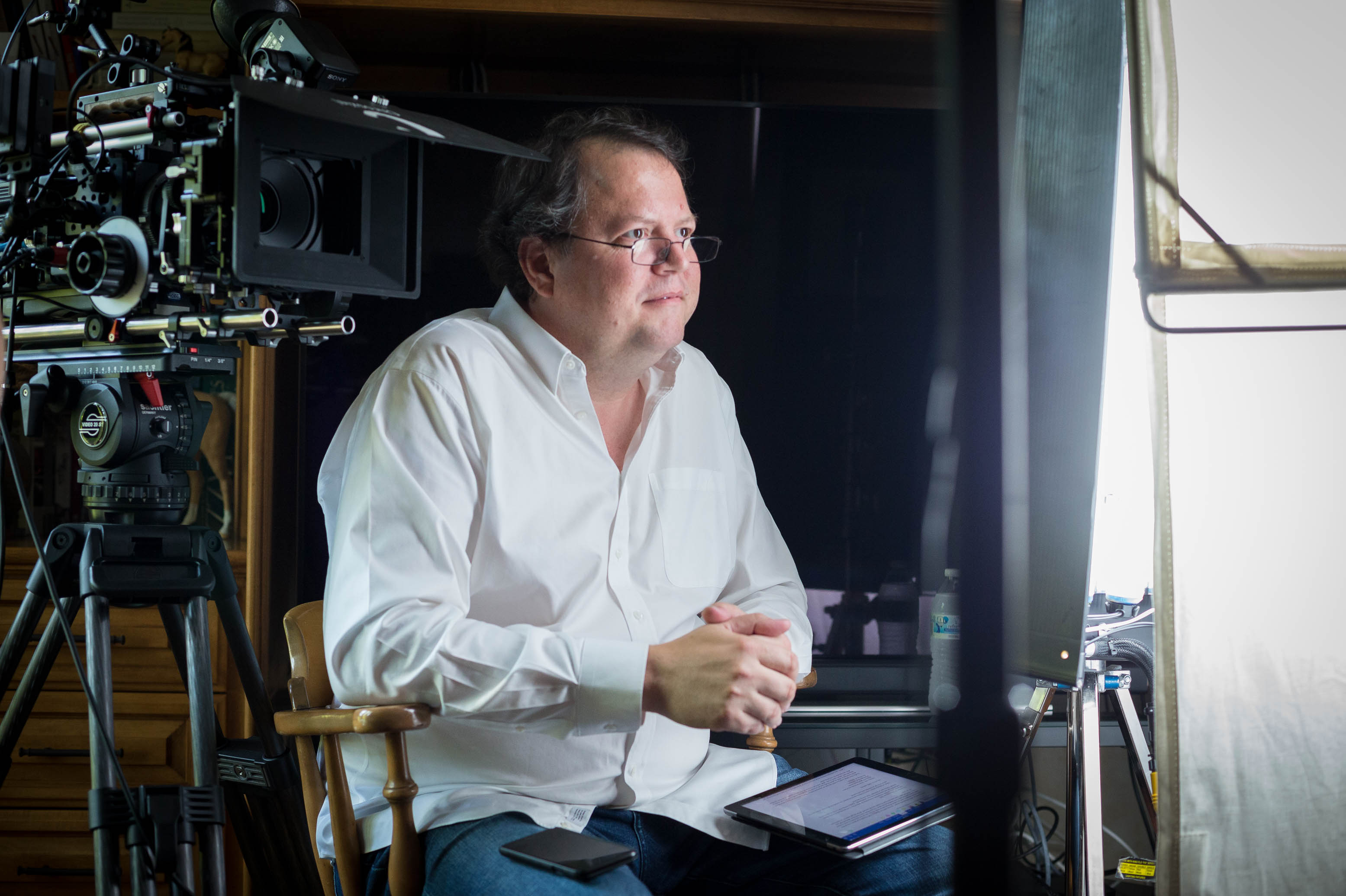 Producer, writer, director Mark Maxey on location filming the documentary feature Up to Snuff.